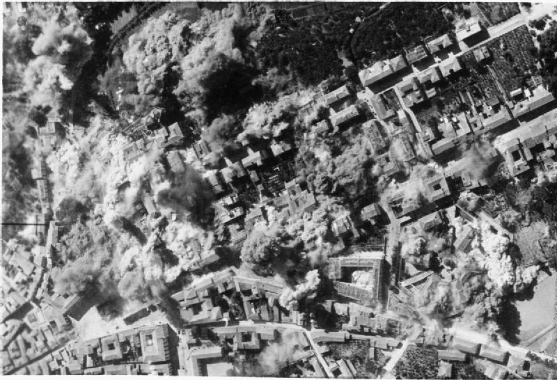 Royal Air Force- Italy, the Balkans and South-east Europe, 1942-1945. Vertical aerial photograph showing bombs from aircraft of the Tactical Bomber Force exploding in the town of Avellino, near Naples, before its capture by troops of the American 5th Army.